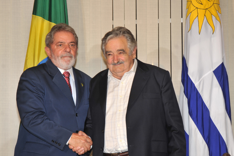 Presidents of Brazil and Uruguay Lula da Silva and José Mujica.